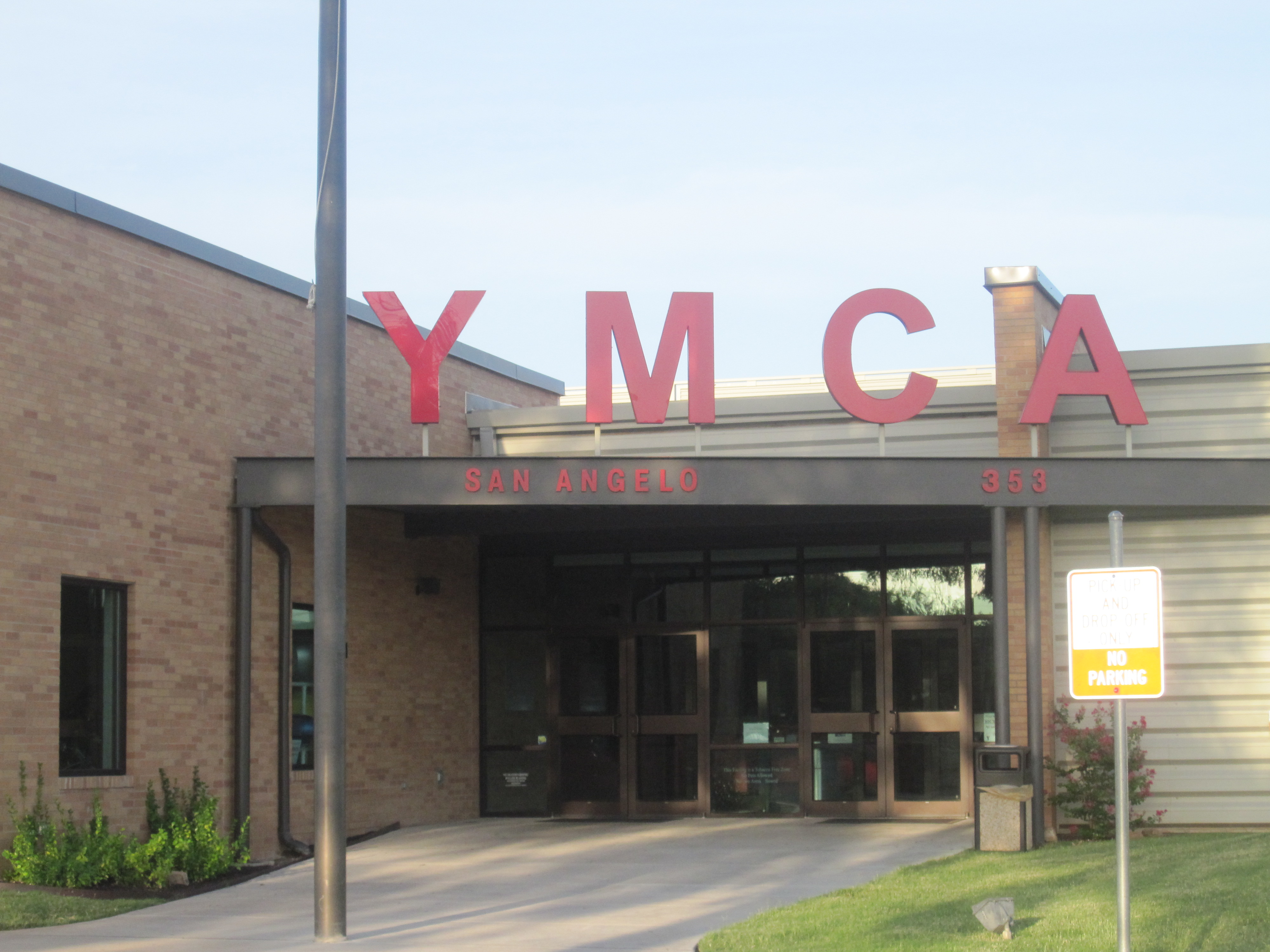 I took photo with Canon camera in San Angelo, TX.